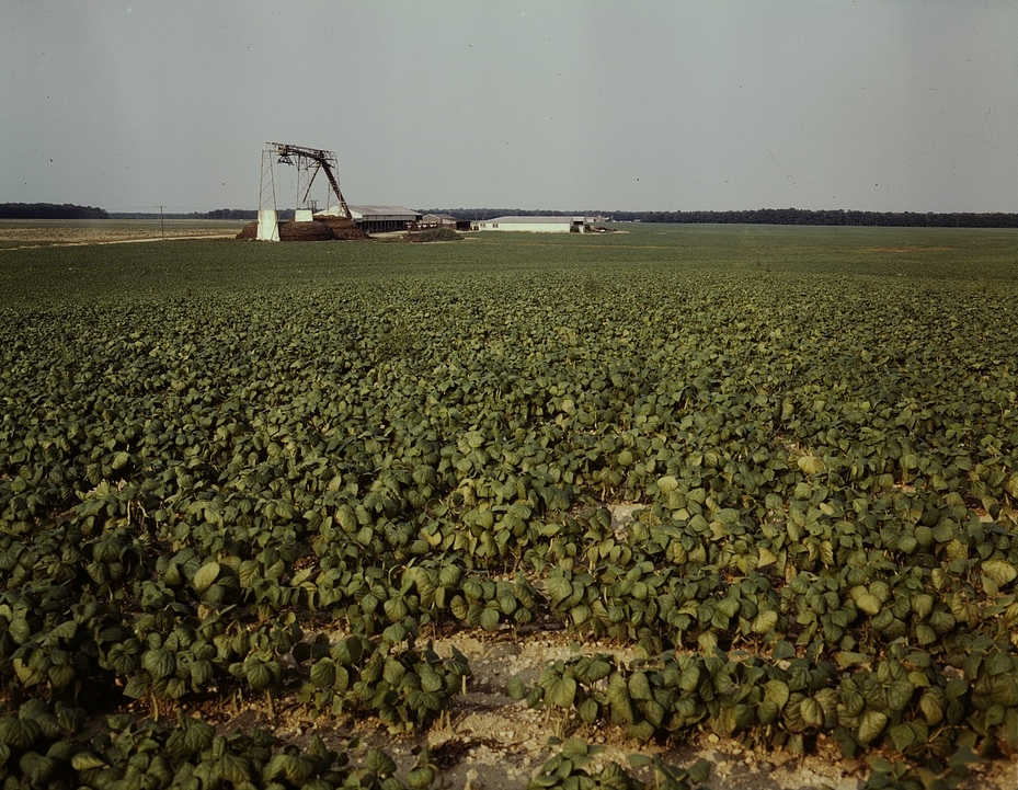 Title: Bean field [and canning factory] Seabrook Farm, Bridgeton, N.J.